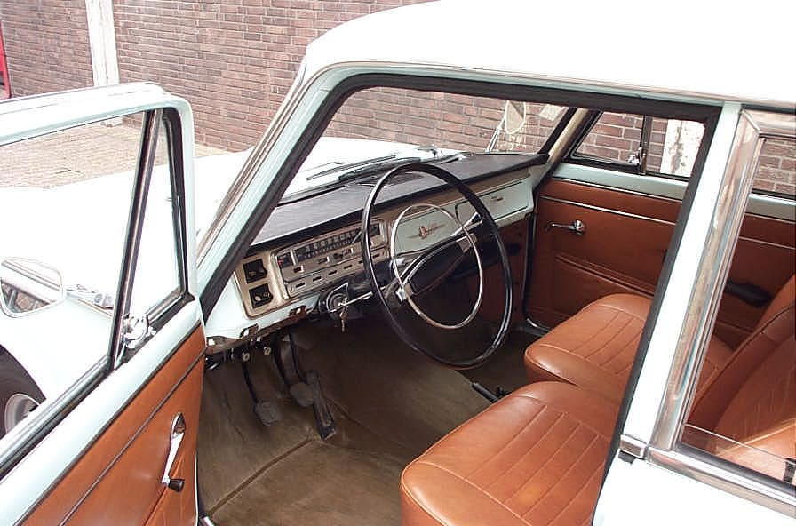 1966 Fiat 1500 saloon, Alice Blue, interior in copper fake leather The vehicle was on sale at the Garage de l'Est at the time the image was uploaded